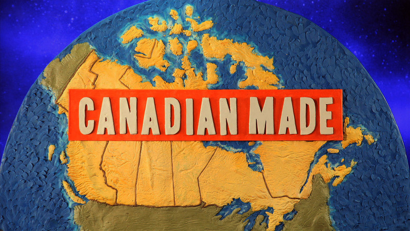 This is the main logo for the TV documentary series, "Canadian Made".